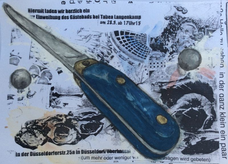 Katrin's oyster knife, watercolour on paper, WV:TEX, 27b), 9.5 cm x12 cm, 2015